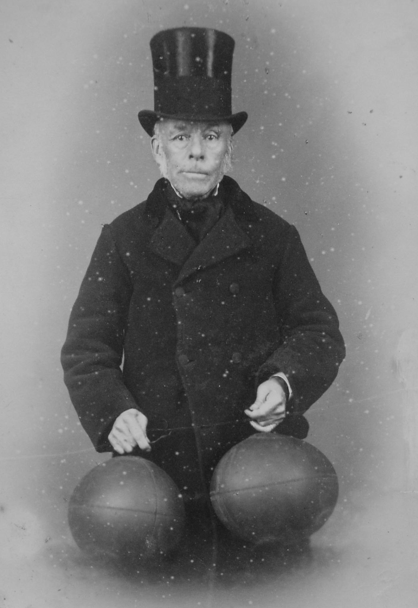 Richard Lindon, believed to have invented the first footballs with rubber bladders, holding the new "buttonless" balls.